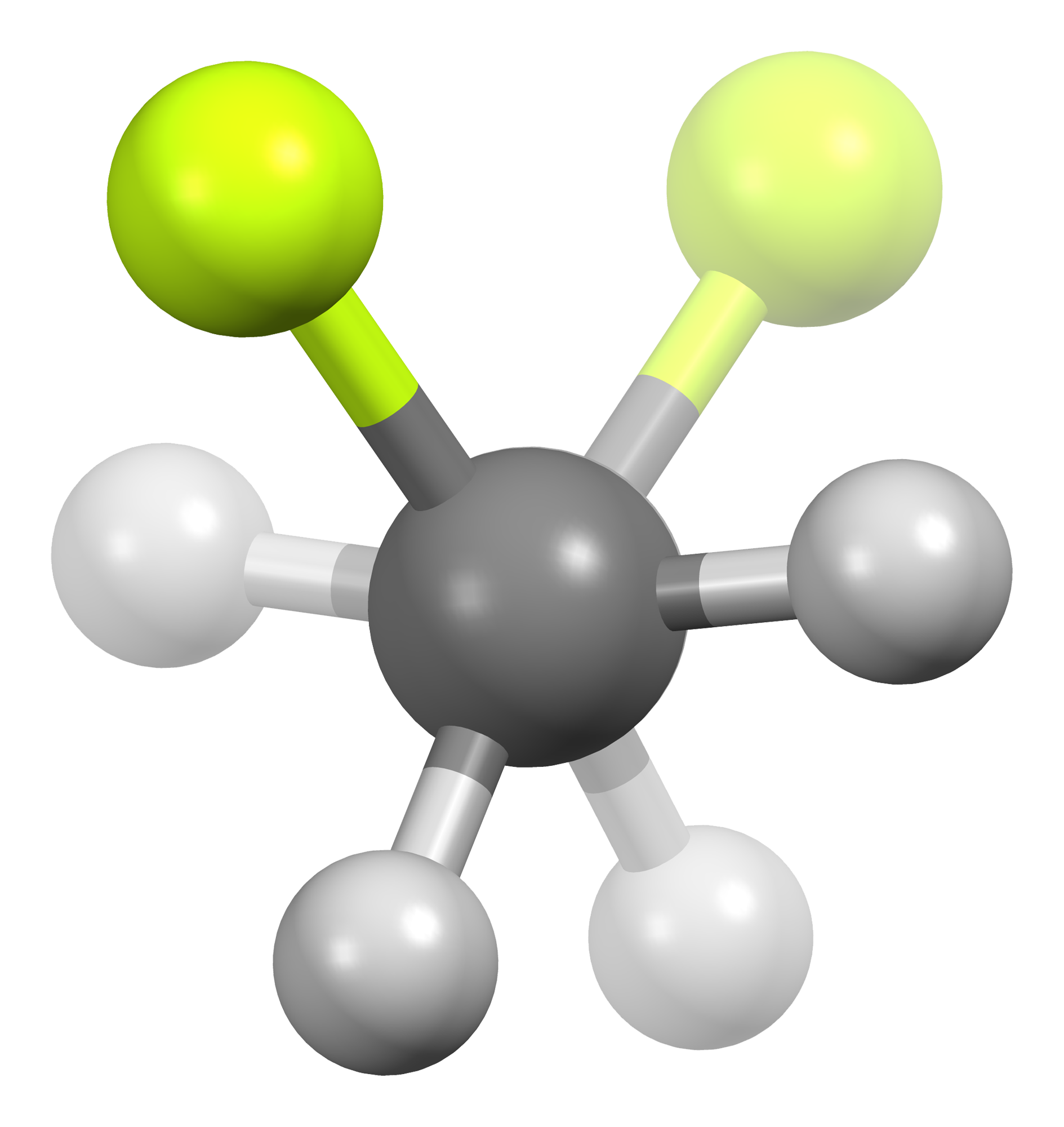 Ball-and-stick model of the 1,2-difluoroethane molecule, C2H4F2, emphasising the gauche conformation as found in the crystal structure reported in J. Chem. Crystallogr. (2003) 33, 969-975 (CSD entry: AMECIE). Colour code: Carbon, C: grey Hydrogen, H: white Fluorine, F: yellow-green Model manipulated and image generated in CCDC Mercury 3.8.